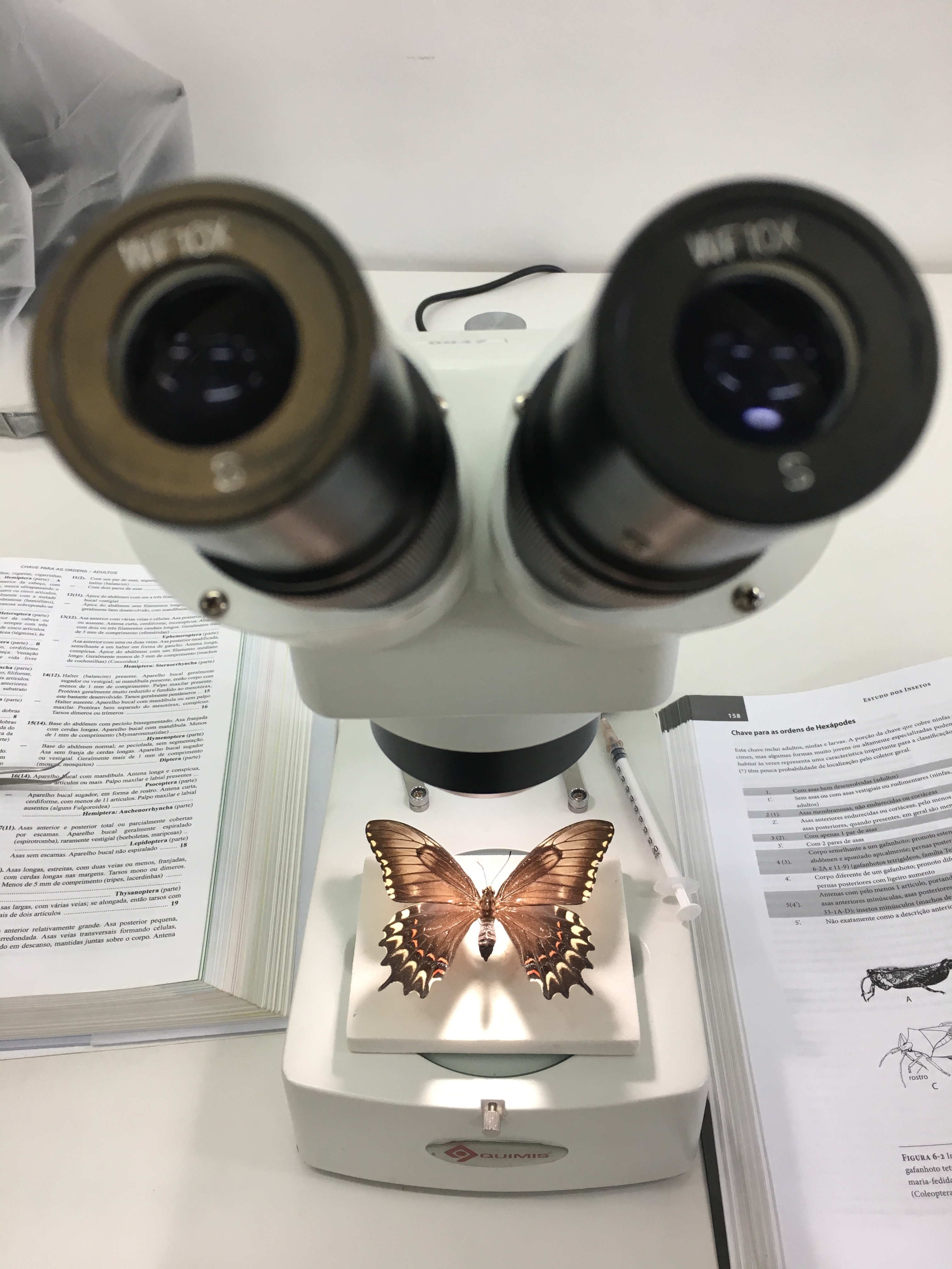 Looking at the butterfly in a stereomicroscope